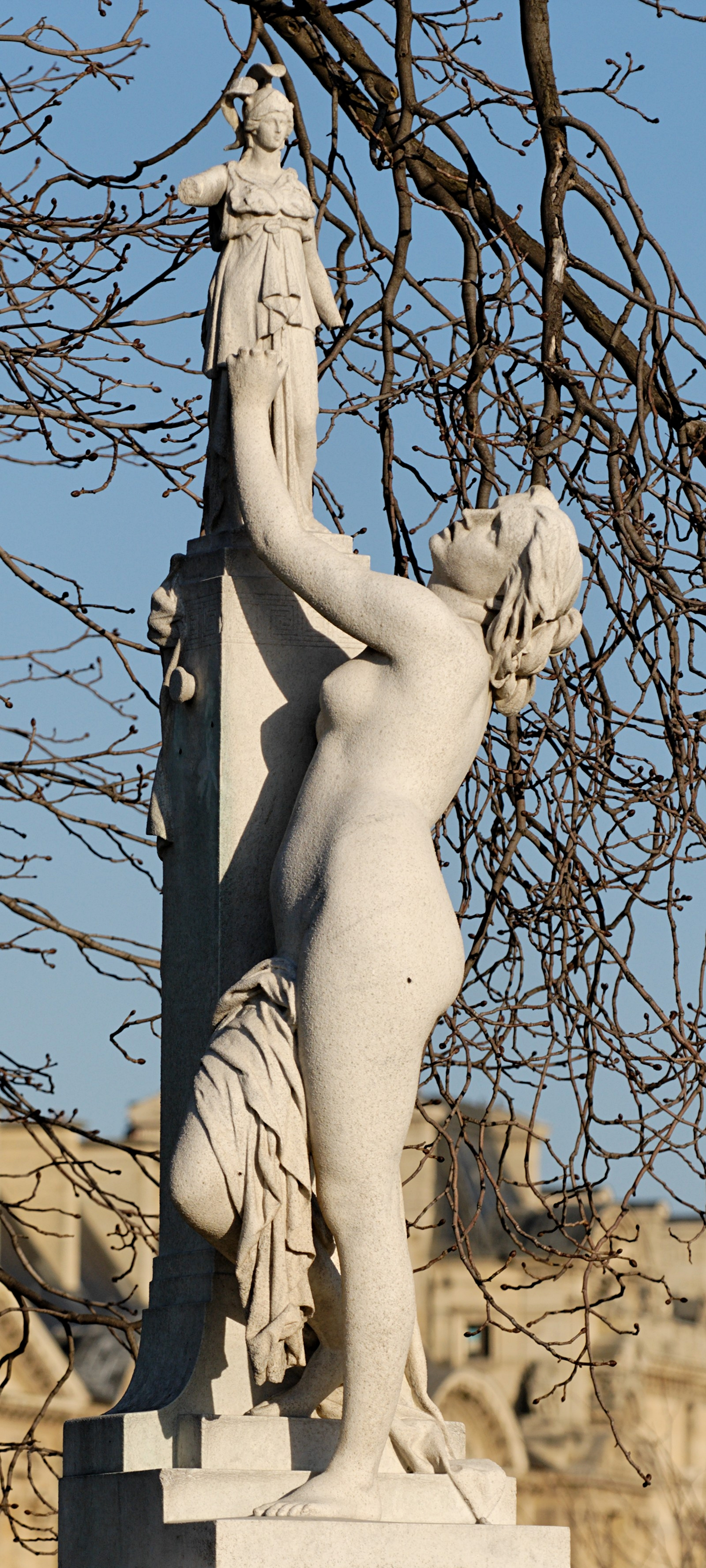 Cassandra seeking the protection of Pallas by Aimé Millet (French, 1819–1891), at the Tuileries Gardens in Paris. Marble, 1877.